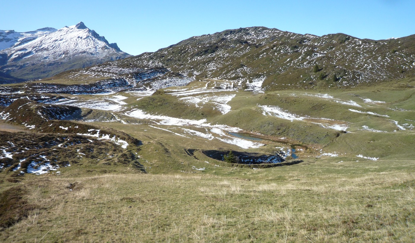 former Lake called Lüschersee had been lowered in 1902 to reduce the risks of living nearby. Behind it is Glaser Grat and to the left in the distance Bruschghorn.